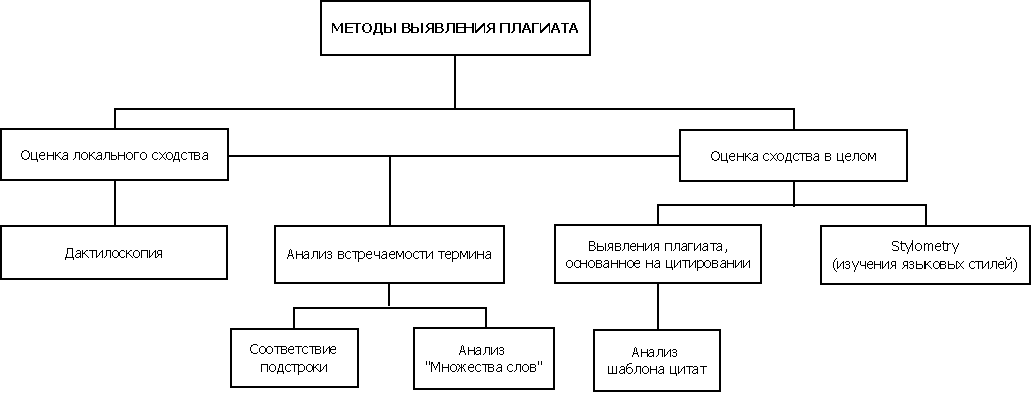 Plagiarism detection methods.